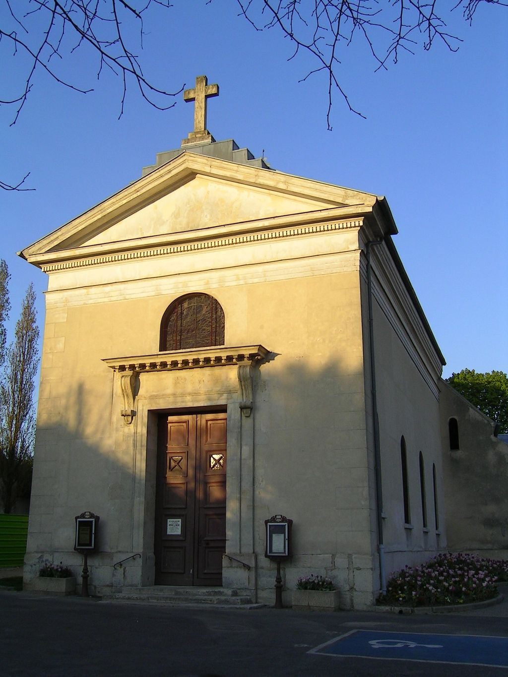 L'Eglise, rue Grange Photo personnelle (own work) de Marianna